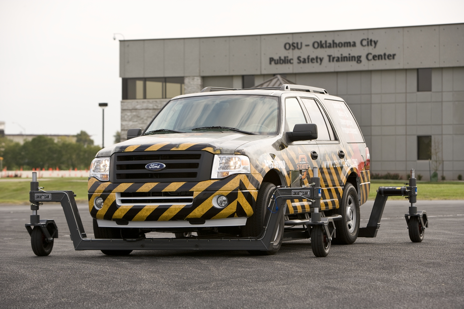 OSU-OKC's SkidSUV